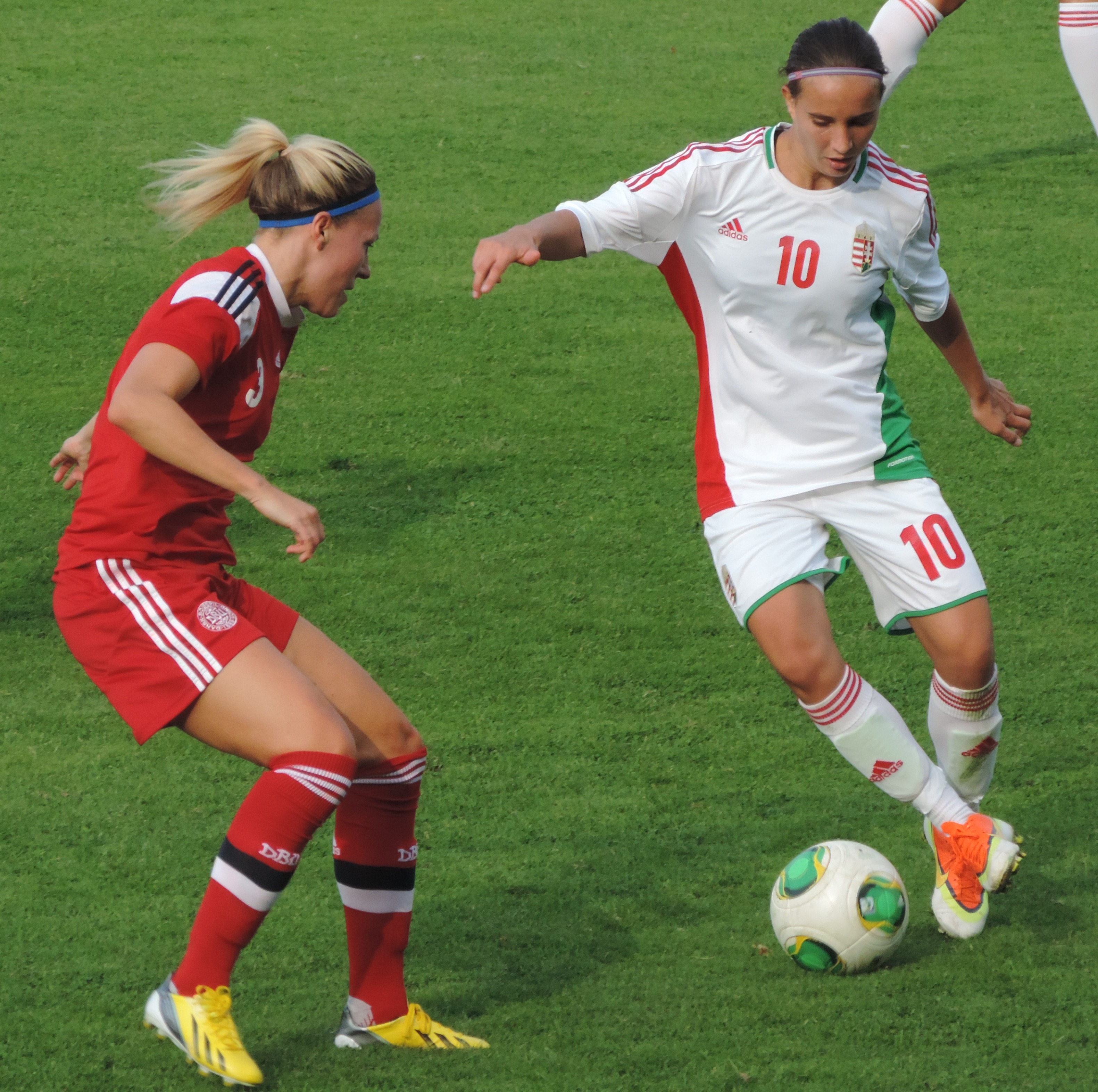 Fanny Vágó Hungarian international football player. Hungary-Denmark 0-4